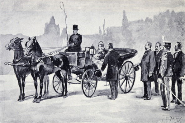 Title: Garibaldi being received by King Umberto I Caption: ITALY - CIRCA 2002: Garibaldi being received at Quirinal Palace by King Umberto I, April 7, 1879. Italy, 19th century. (Photo by DeAgostini/Getty Images) Date created: 01 Jan 2002 Editorial image #: 150616836 Restrictions: Contact your local office for all commercial or promotional uses. Licence type: Rights-managed Photographer: DEA PICTURE LIBRARY/Contributor Collection: De Agostini Credit: De Agostini/Getty Images Max file size/dimensions/dpi: 60.0 MB - 5602 x 3743 px (47.43 x 31.69 cm) - 300 dpi Download file size may vary. Source: De Agostini Editorial Release information: Not released. More information Bar code: 11164431 Object name: 11164431 Keywords: Art And Craft, People, Elegance, History, Architecture, Horizontal, Full Length, Outdoors, Side View, Italy, Horse, Traditionally Italian, Day, British Columbia, Meeting, 1879, Adult, Politics, Art And Craft, Illustration and Painting, Medium Group Of People, Two Animals, Men, Only Men, Arrival, Animal Themes, Building Exterior, Historical Clothing, 19th Century Style, Garibaldi Park, Capital Cities, Adults Only, Giuseppe Garibaldi, Quirinal Palace, Arts Culture and Entertainment, Carriage. Find similar images Availability: Availability for this image cannot be guaranteed until time of purchase.